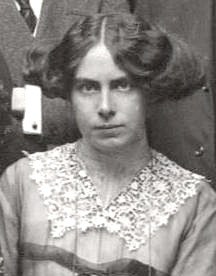 Antonia Anna "Toni" Wolff (18 September 1888 — 21 March 1953) was a Swiss Jungian analyst and a close associate of Carl Jung. This crop of a larger image is from the 1911. It is not the highest resolution, but provided for historical reasons.